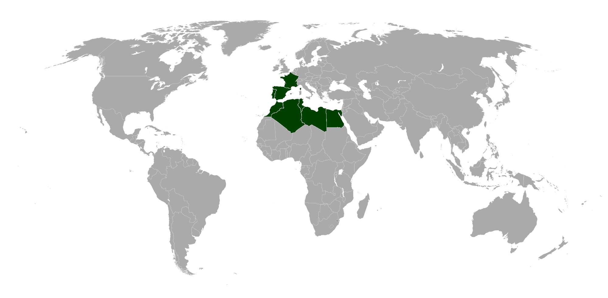 Tomares ballus distribution by country.